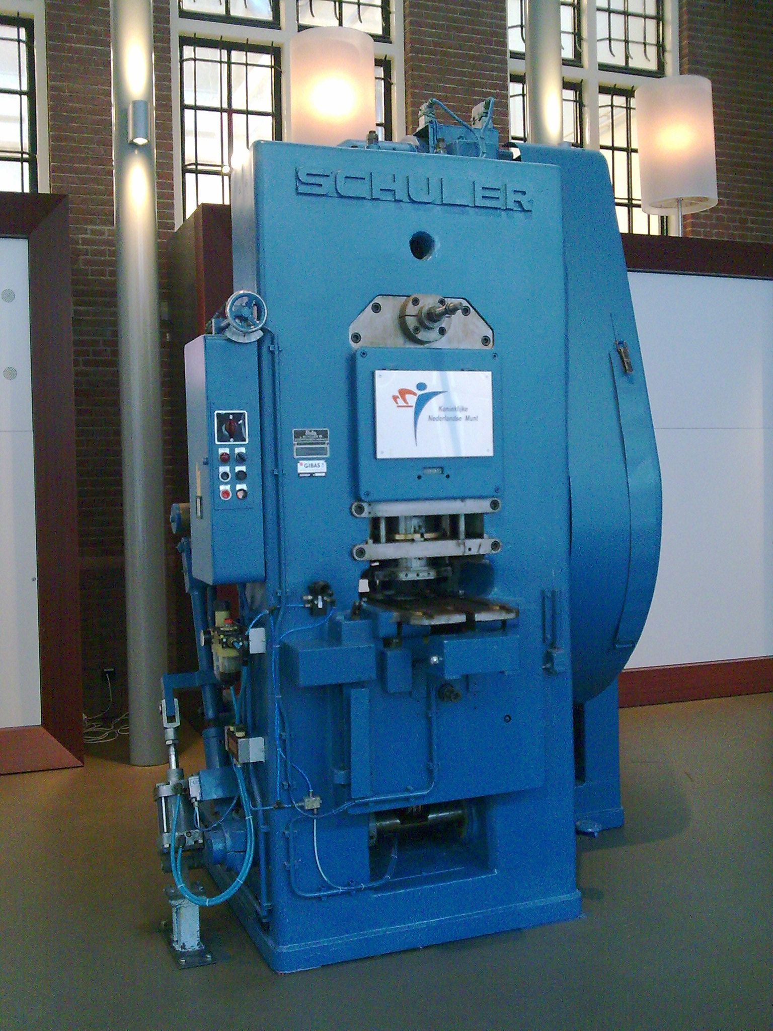 Oldest coin press stil in use by the Royal Dutch Mint (Koninklijke Nederlandse Munt). This one is only used in case of a "First Mint"